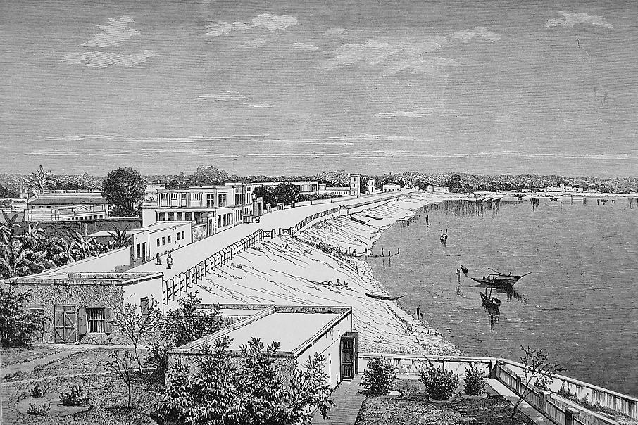 Chandernagore, in a wood engraving by Bickers & Son, London, 1878; *a larger scan of this engraving*